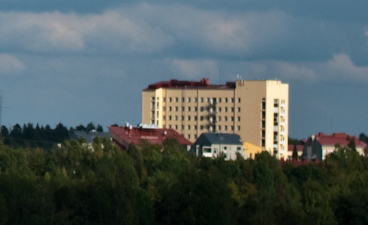 South Karelia Central Hospital in Lappeenranta, Finland